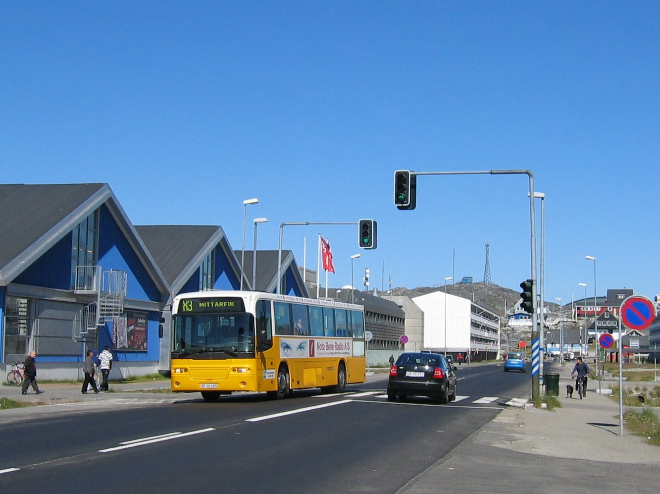 Bus of Nuup Bussii A/S in downtown Nuuk